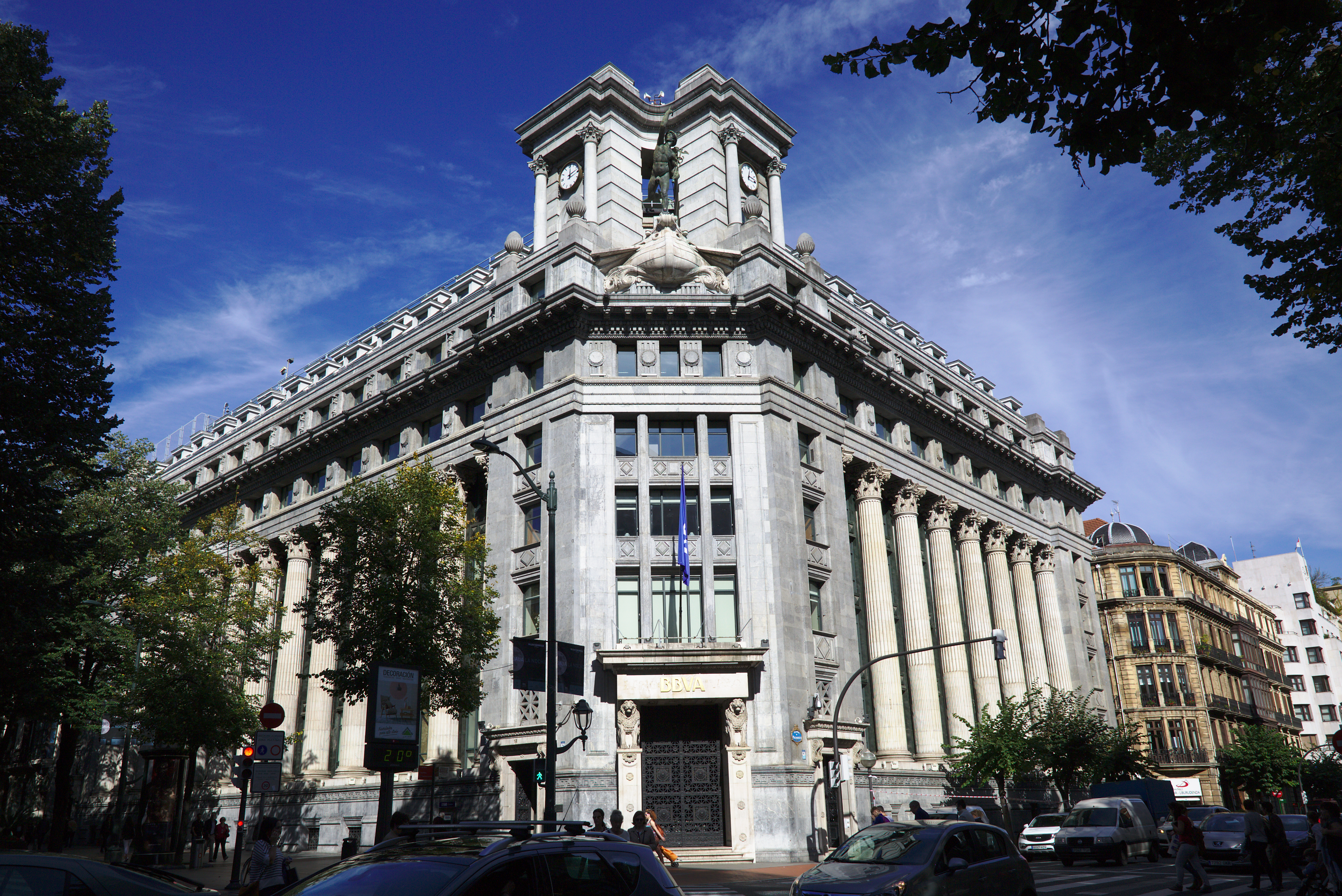 Buidings in Bilbao